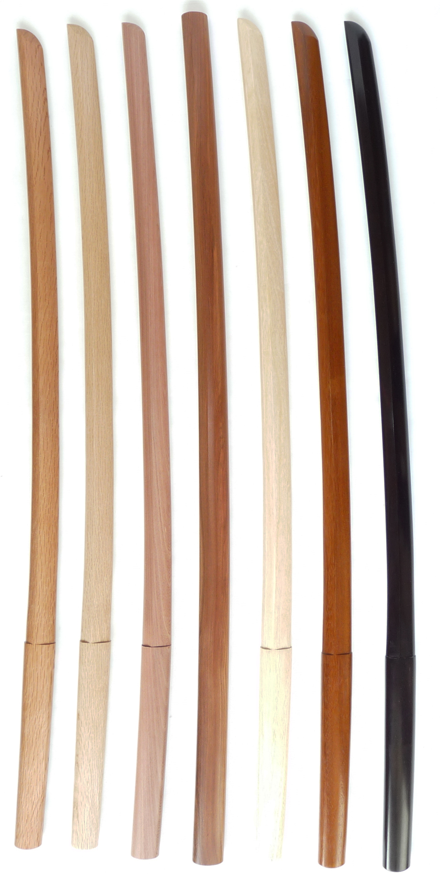 Bokken : different types and wood (all made in Japan).